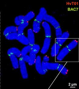 Karyotype of barley (Hordeum vulgare). 2n = 14.